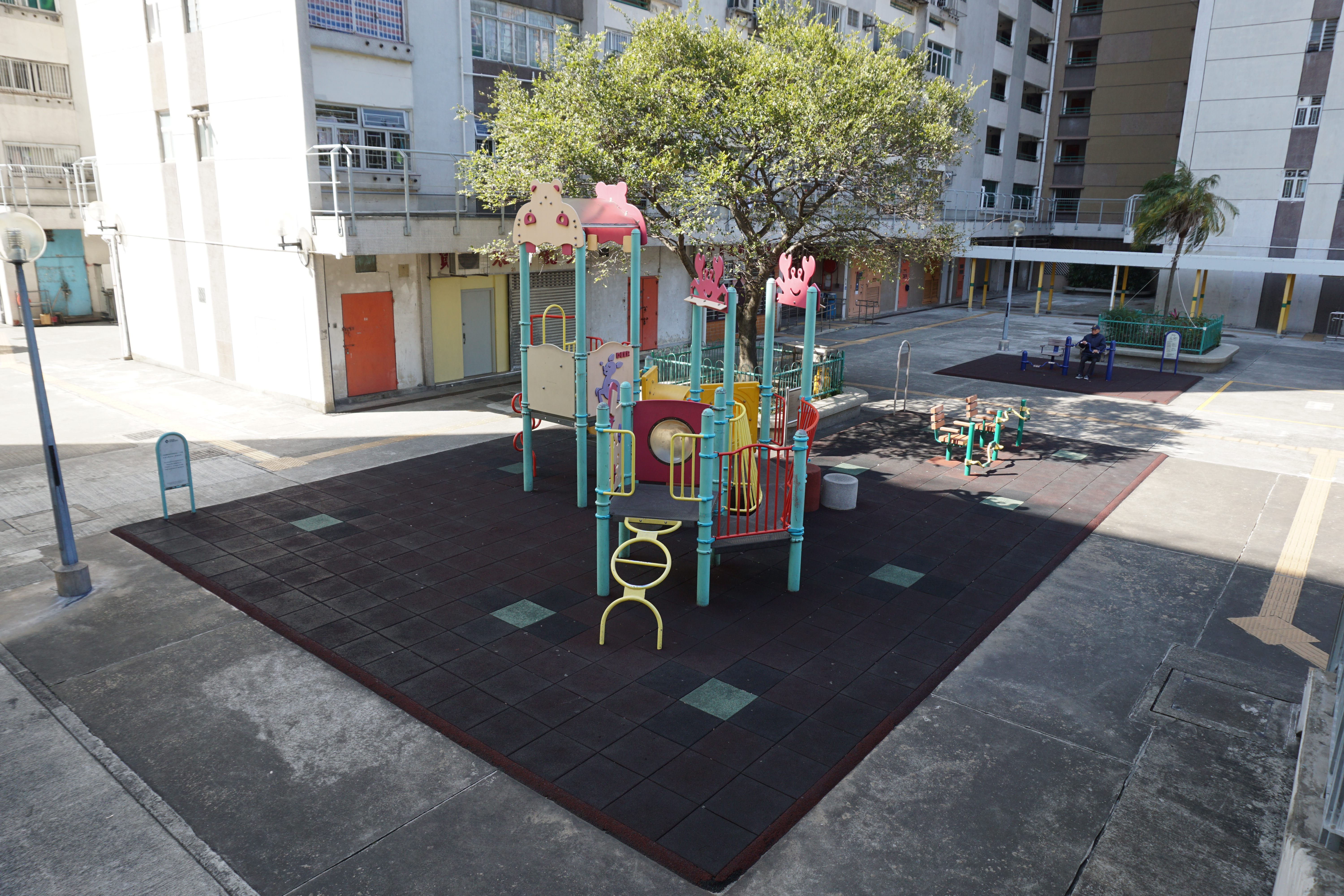 Sam Shing Estate in Tuen Mun, Hong Kong.